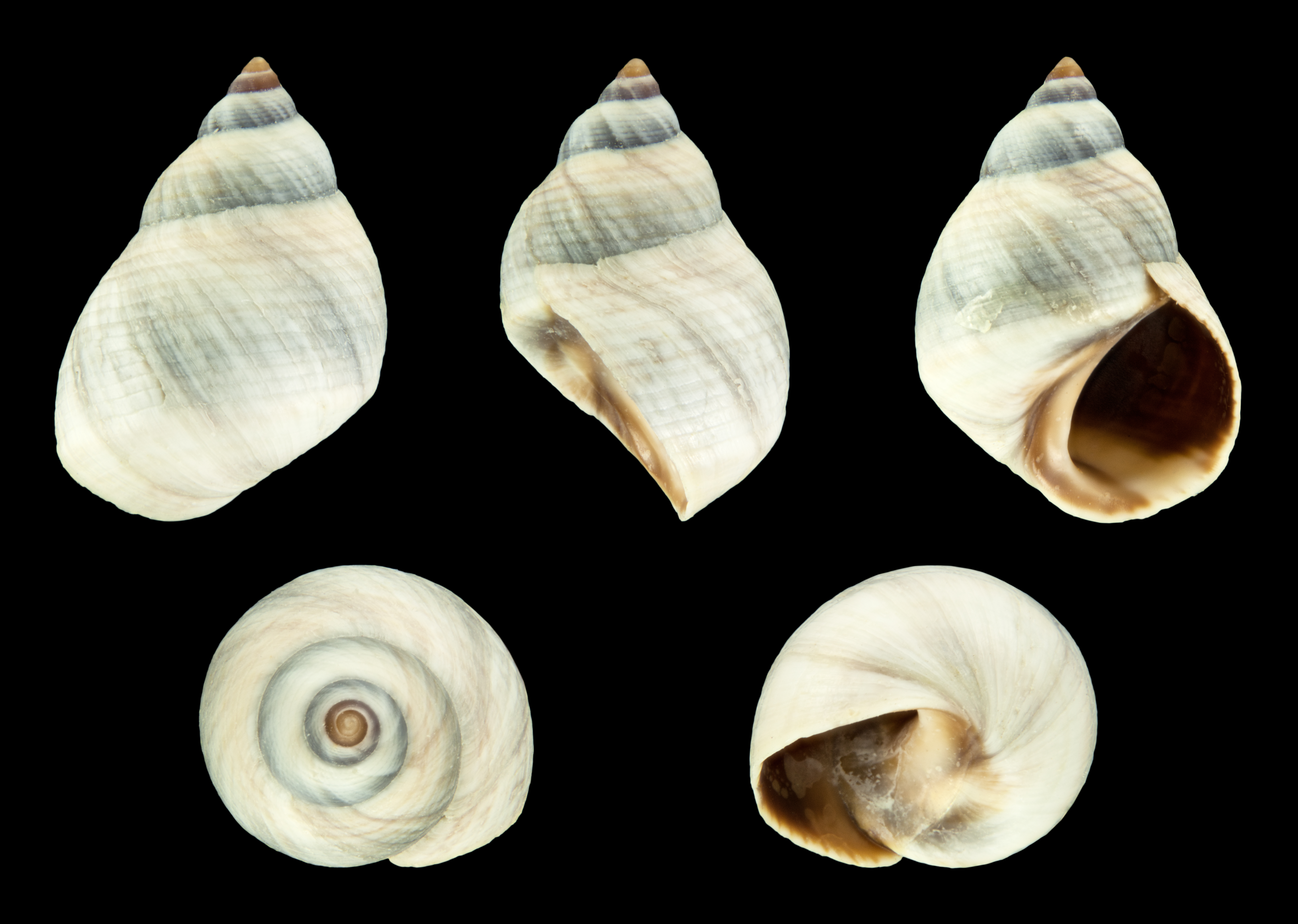 Austrolittorina unifasciata (Gray, 1826), Banded Periwinkle; Height 1.2 cm; Originating from Fremantle, Western Australia; Shell of own collection, therefore not geocoded.